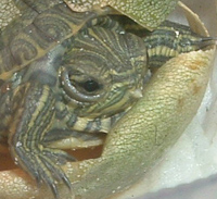 egg tooth, Trachemys scripta elegans, Source: self, Christina Nicholson